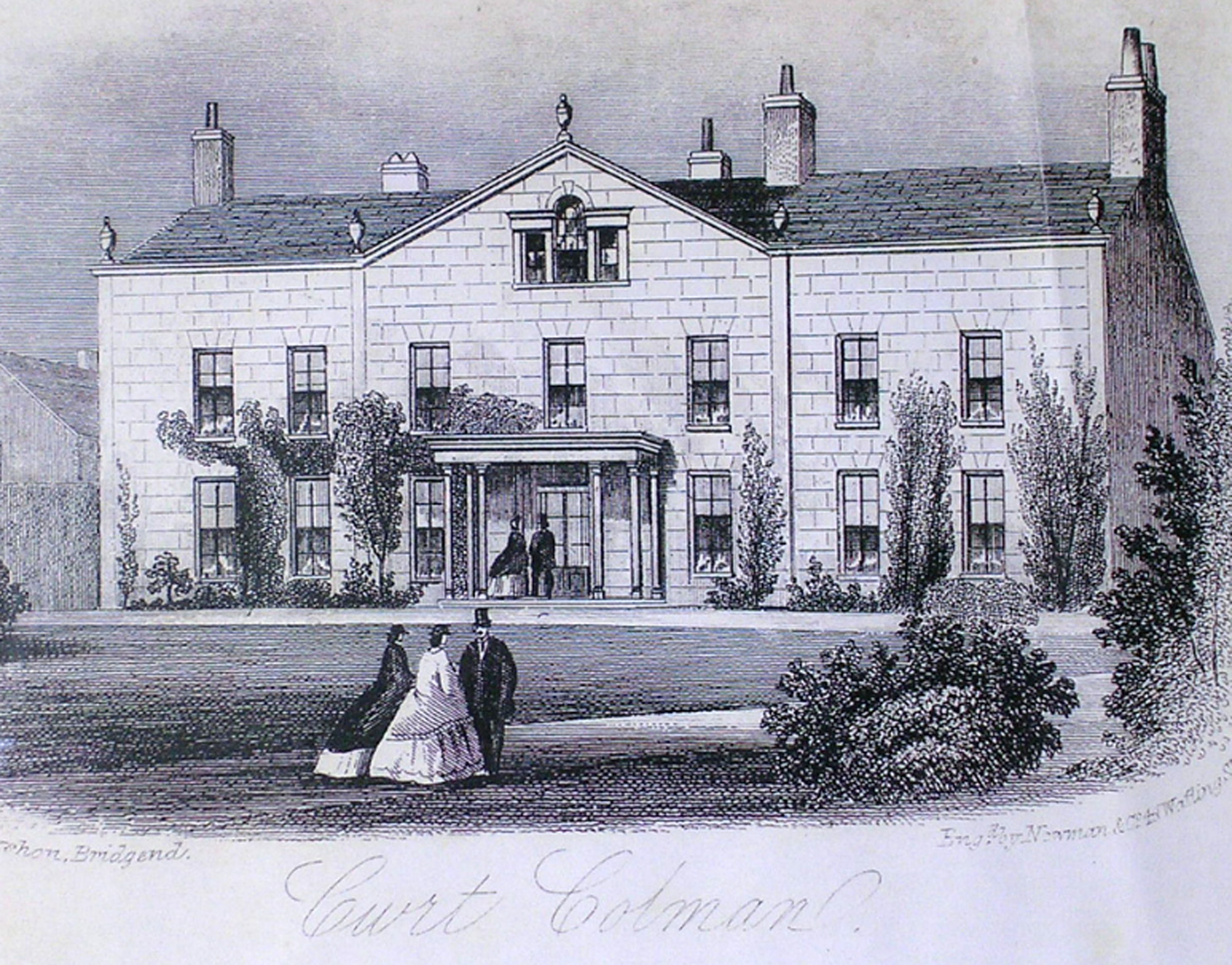 Court Colman, Wales circa 1850